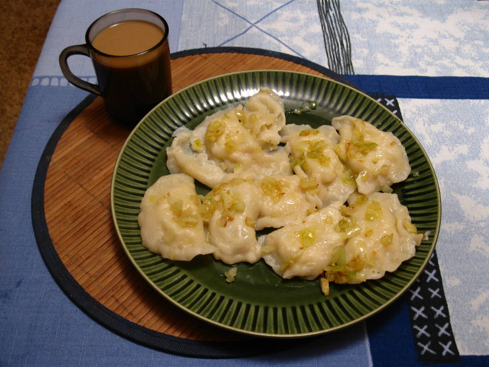 Some Romanian raviolis filled with mushrooms and onions